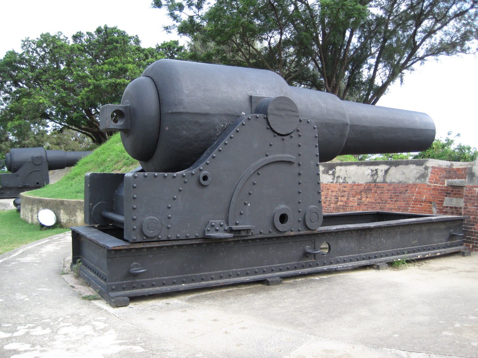 An Artillery in Eternal Golden Castle, Tainan, Taiwan.